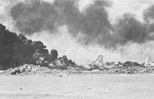 USAAF aircraft burning following the Japanese attack on Isley Field, 27 November 1944